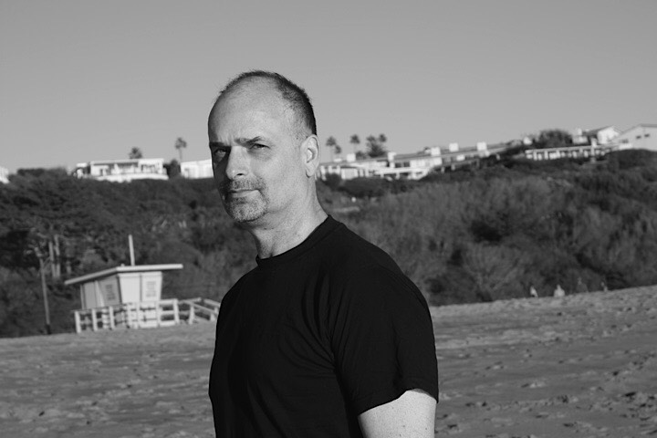 Zoltán Zubornyák Hungarian actor